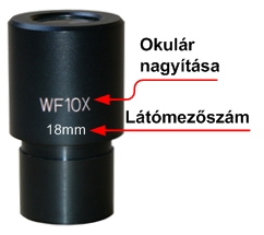 Microscope eyepiece.